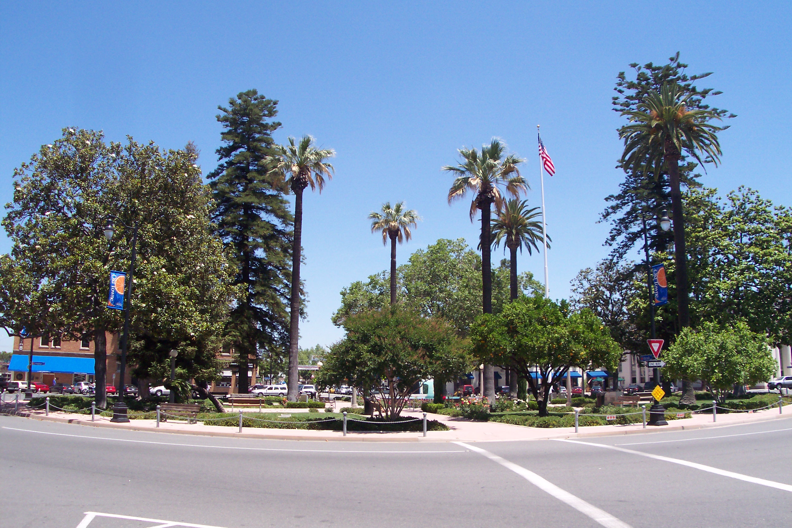 The Plaza in Orange. Photograph by Robert A. Estremo, copyright 2005.